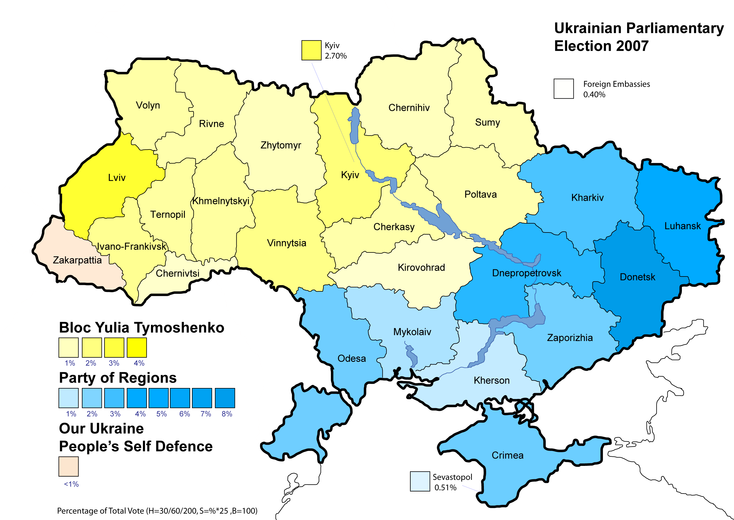 Ukrainian parliamentary election, 2007.